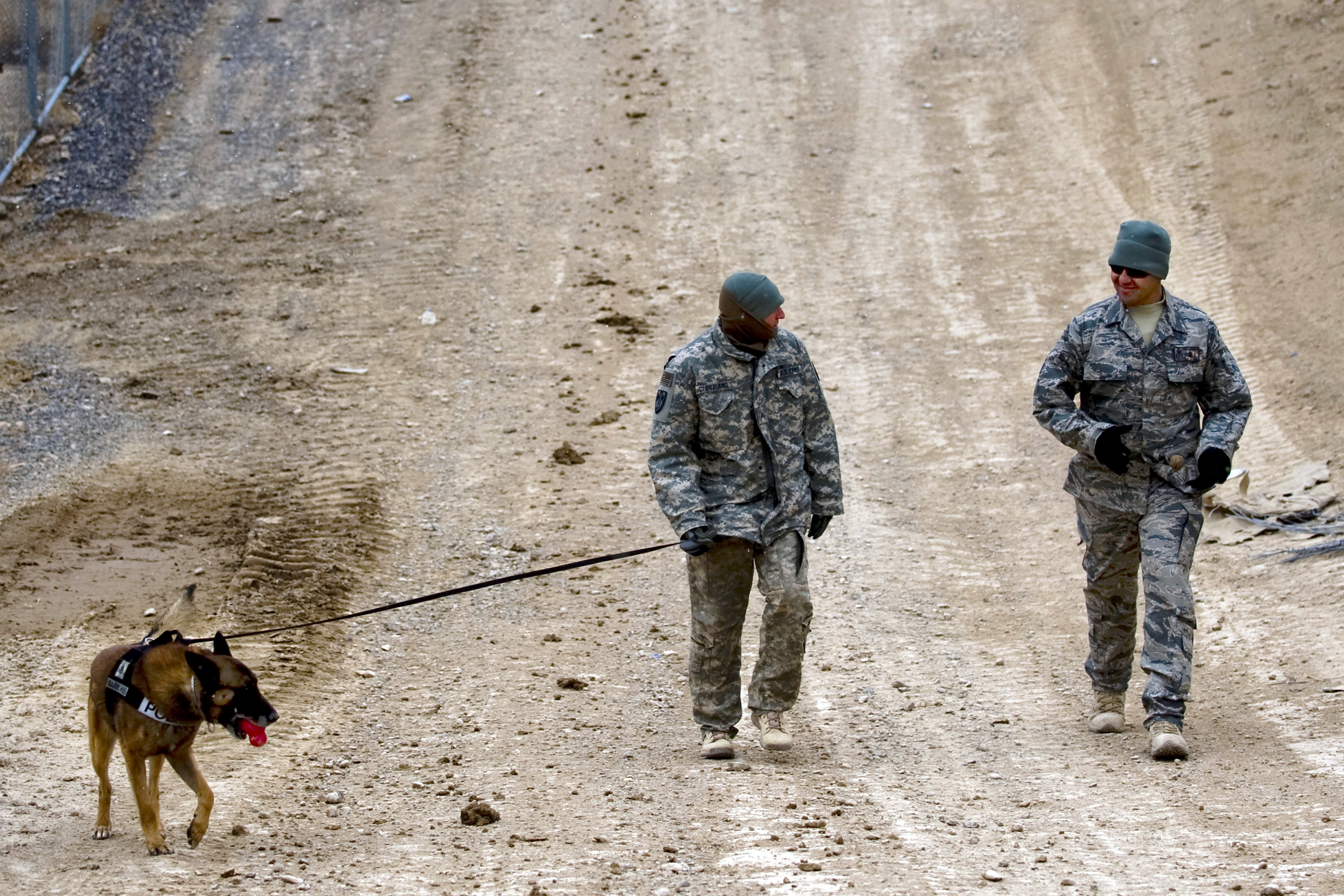 U.S. Air Force Tech. Sgt. Paul Rasmussen critiques a bomb-detection training session on Forward Operating Base Lagman, Afghanistan, Feb. 18, 2011. Rasmussen rates both the military working dog and his handler. Rasmussen is a kennel master assigned to Combined Team Zabul, Afghanistan, and is deployed with the 377th Security Forces Squadron, Kirtland Air Force Base, N.M.